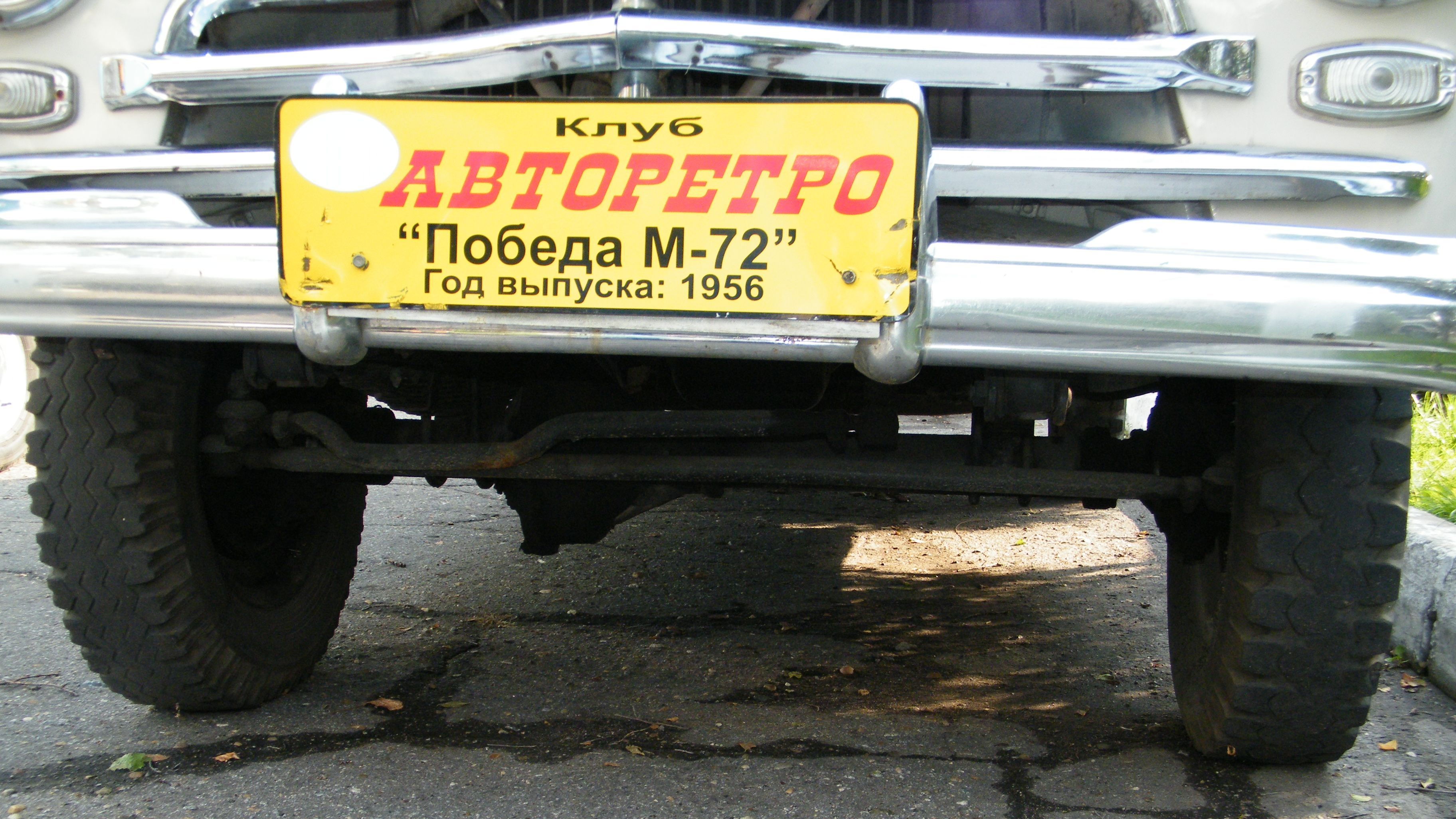 GAZ-M-72 (GAZ-M-20 4x4).